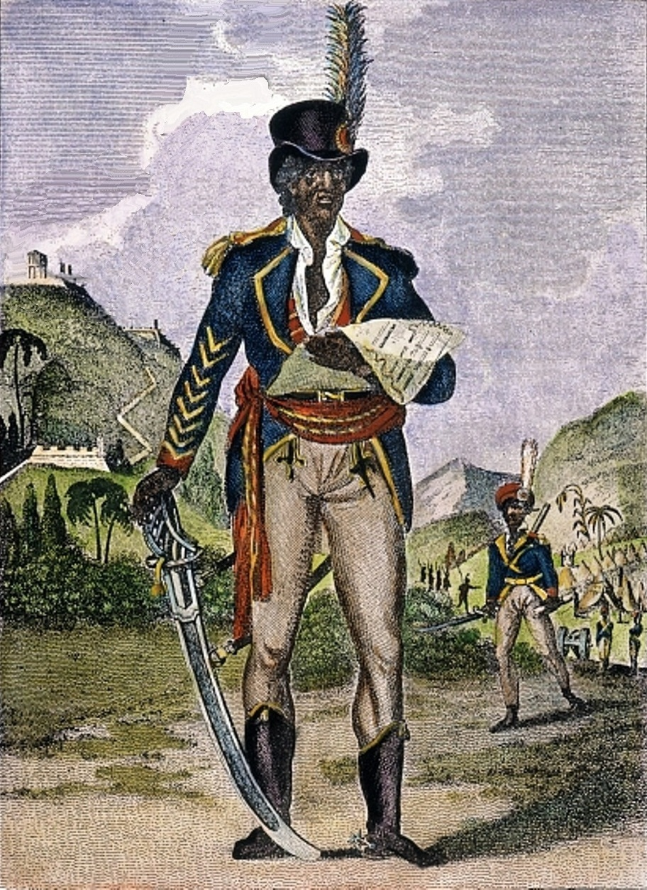 Toussaint Louverture, 1805.